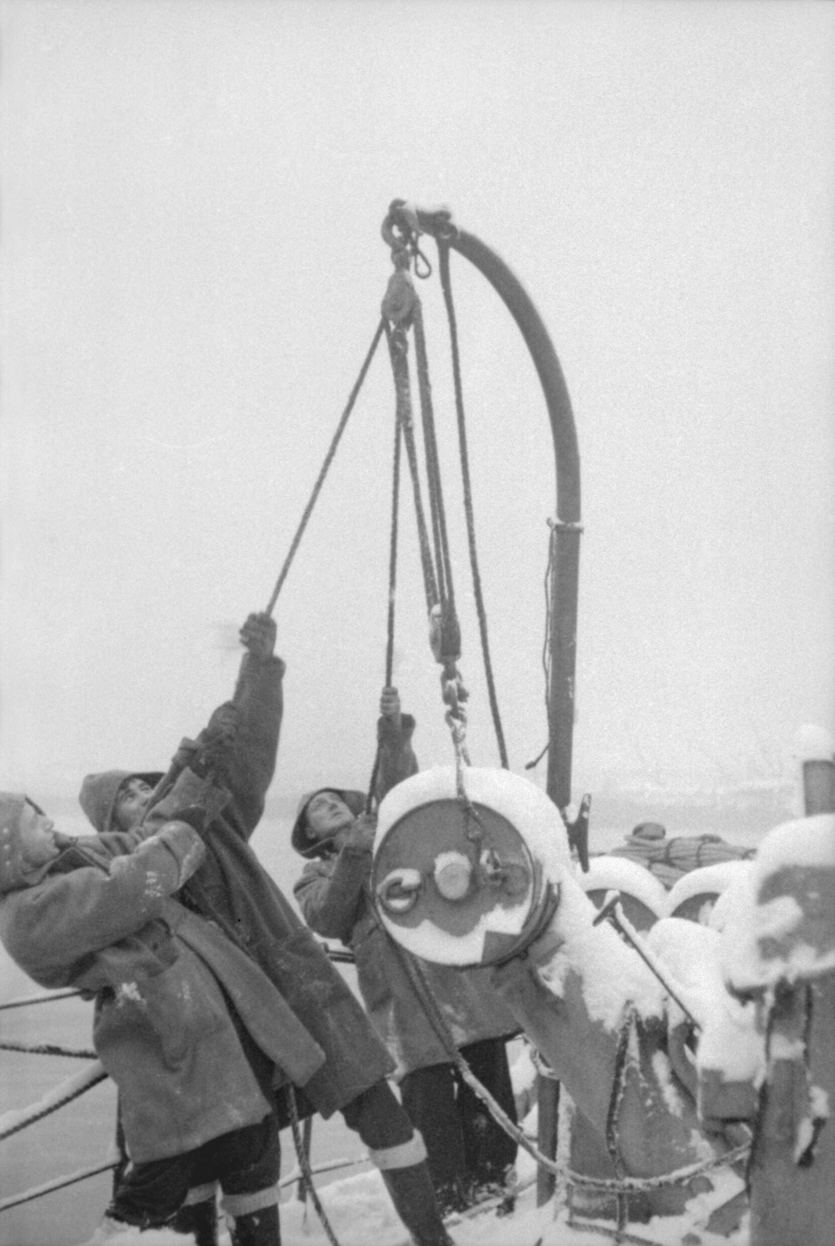 The Royal Navy during the Second World War Duffel coated bluejackets (Royal Marines) hoisting a depth charge on to its thrower on deck in the snow at Rosyth.